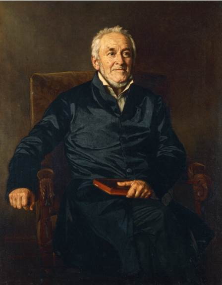 Portrait of Ernst Moritz Arndt